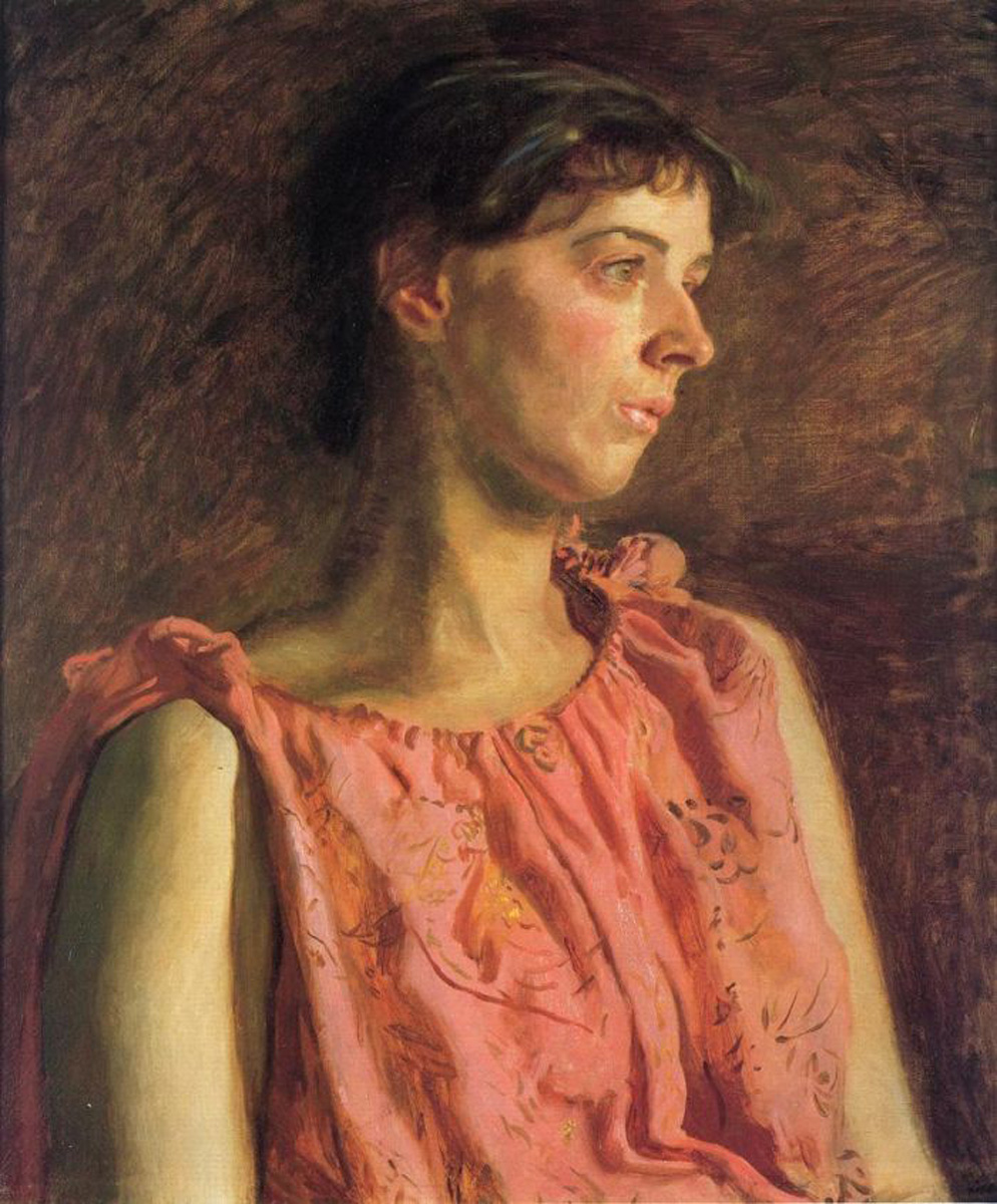 Portrait of Weda Cook by Thomas Eakins